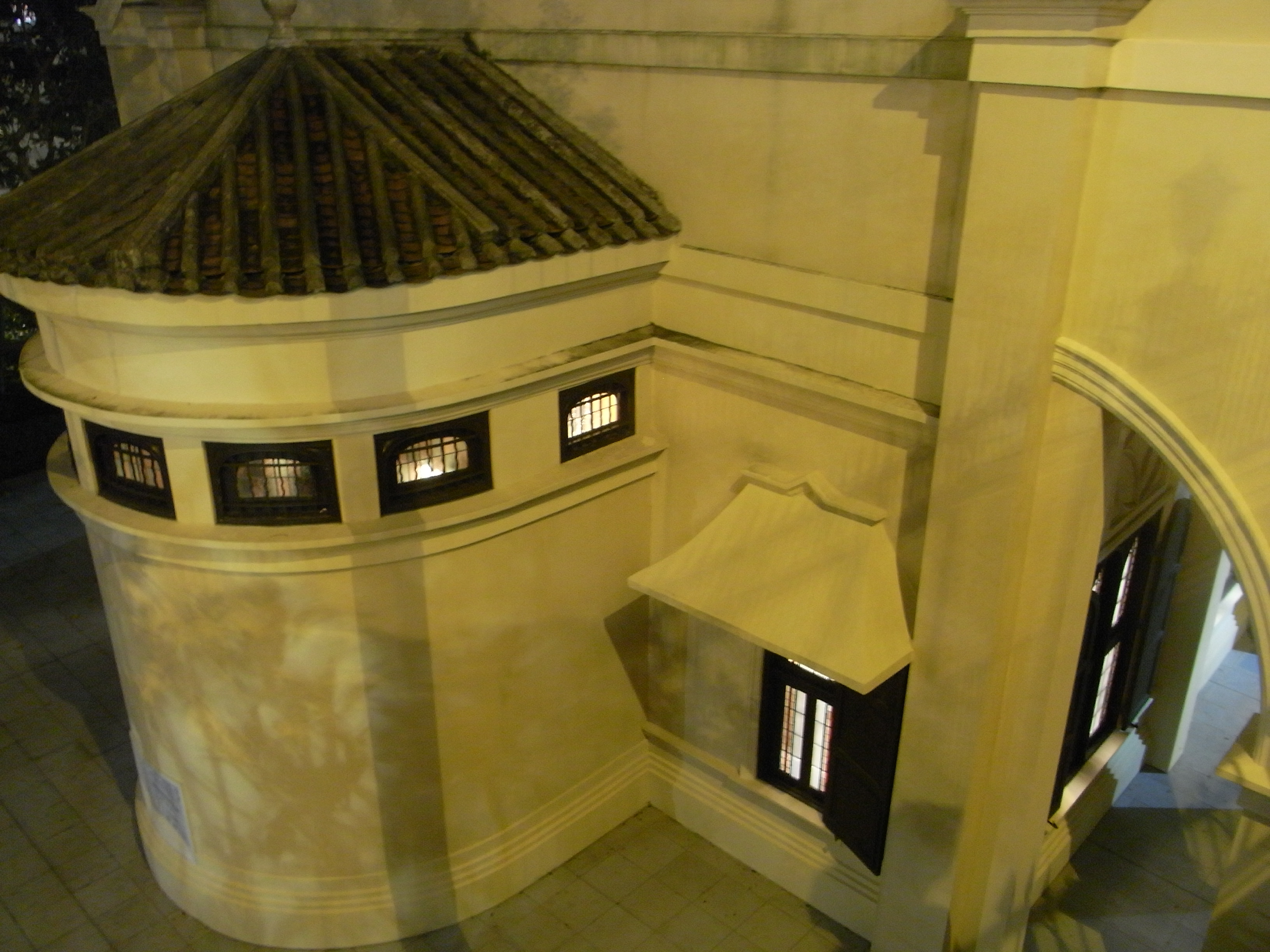 香港島zh:半山區 羅便臣道 猶太教莉亞堂